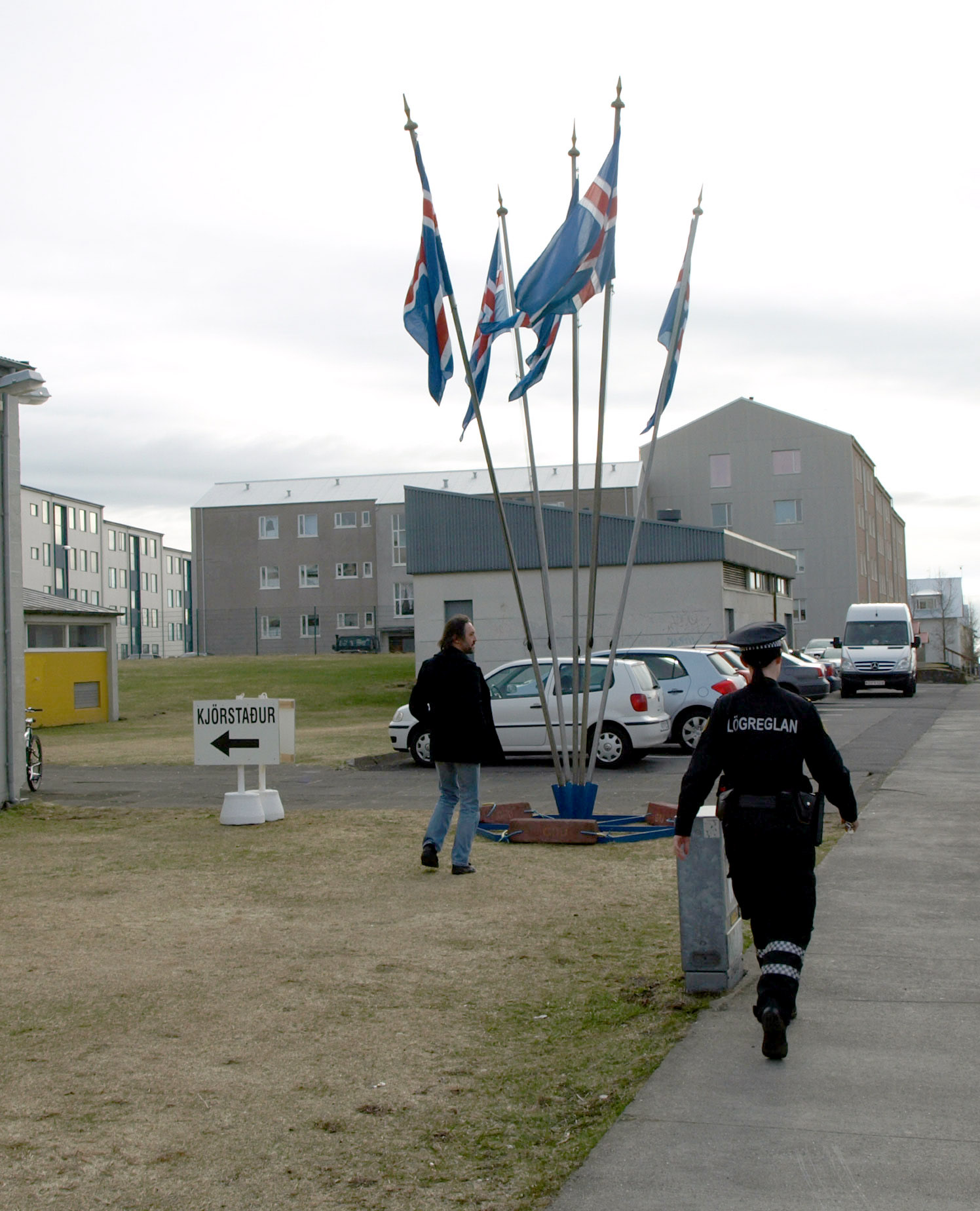 An Icelandic police woman and a man standing outside Hagaskóli, a elementary school in Reykjavík, which served as a polling place on the 25th of March 2009.